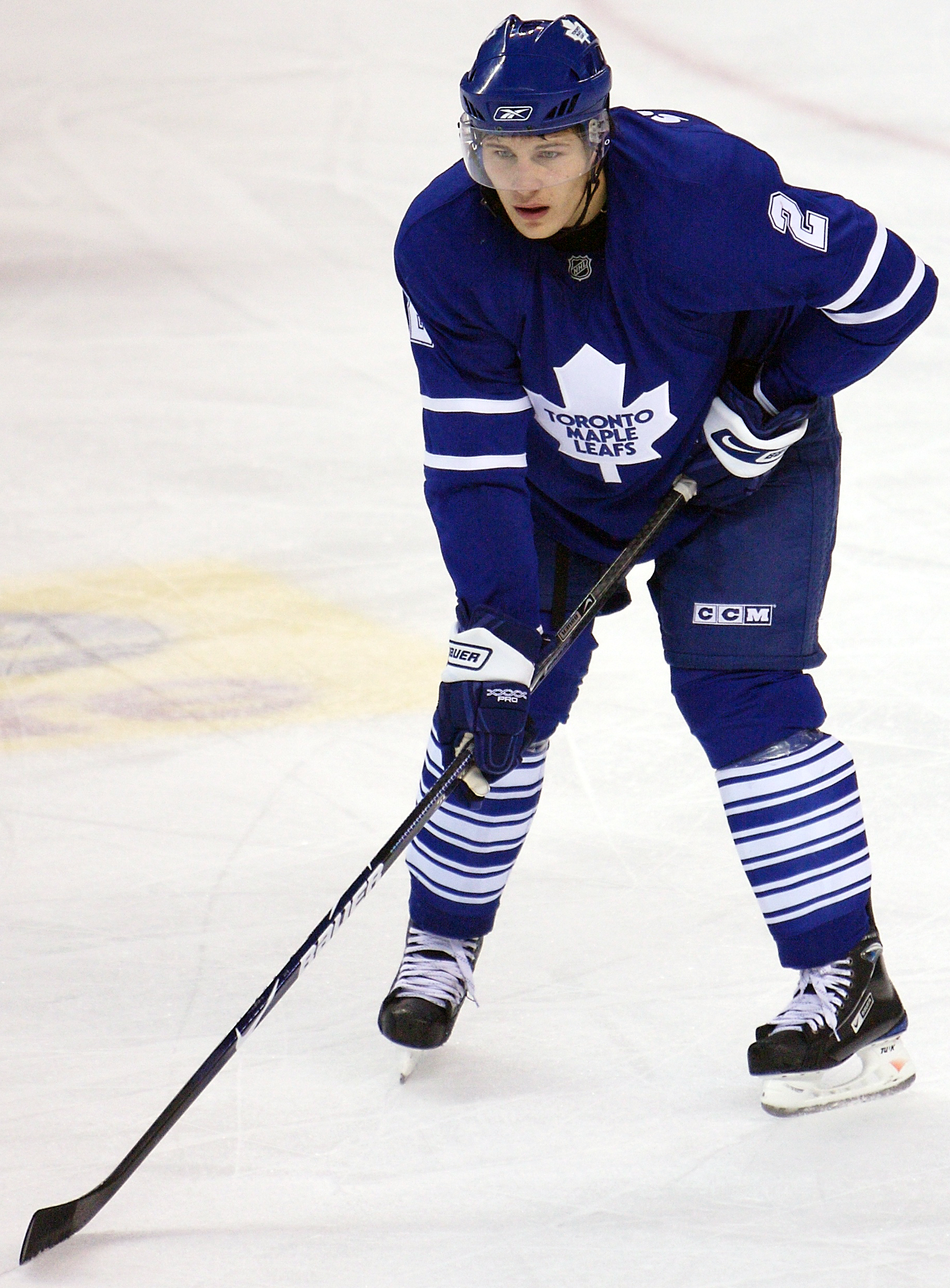 Luke Schenn (born November 2, 1989) is a Canadian professional ice hockey defenceman currently playing for the Toronto Maple Leafs of the National Hockey League (NHL).